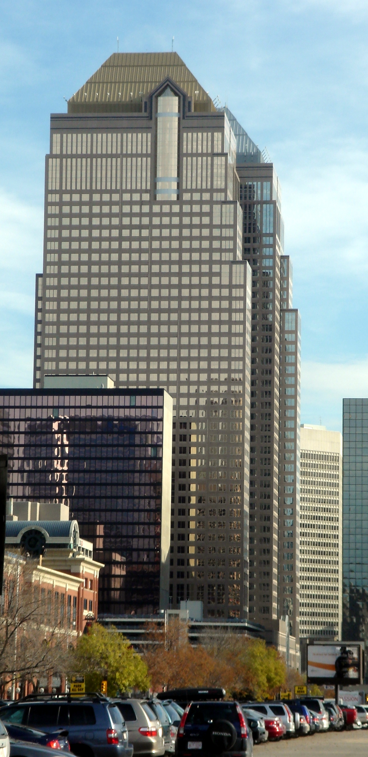 Bankers Hall West building, Calgary, Alberta